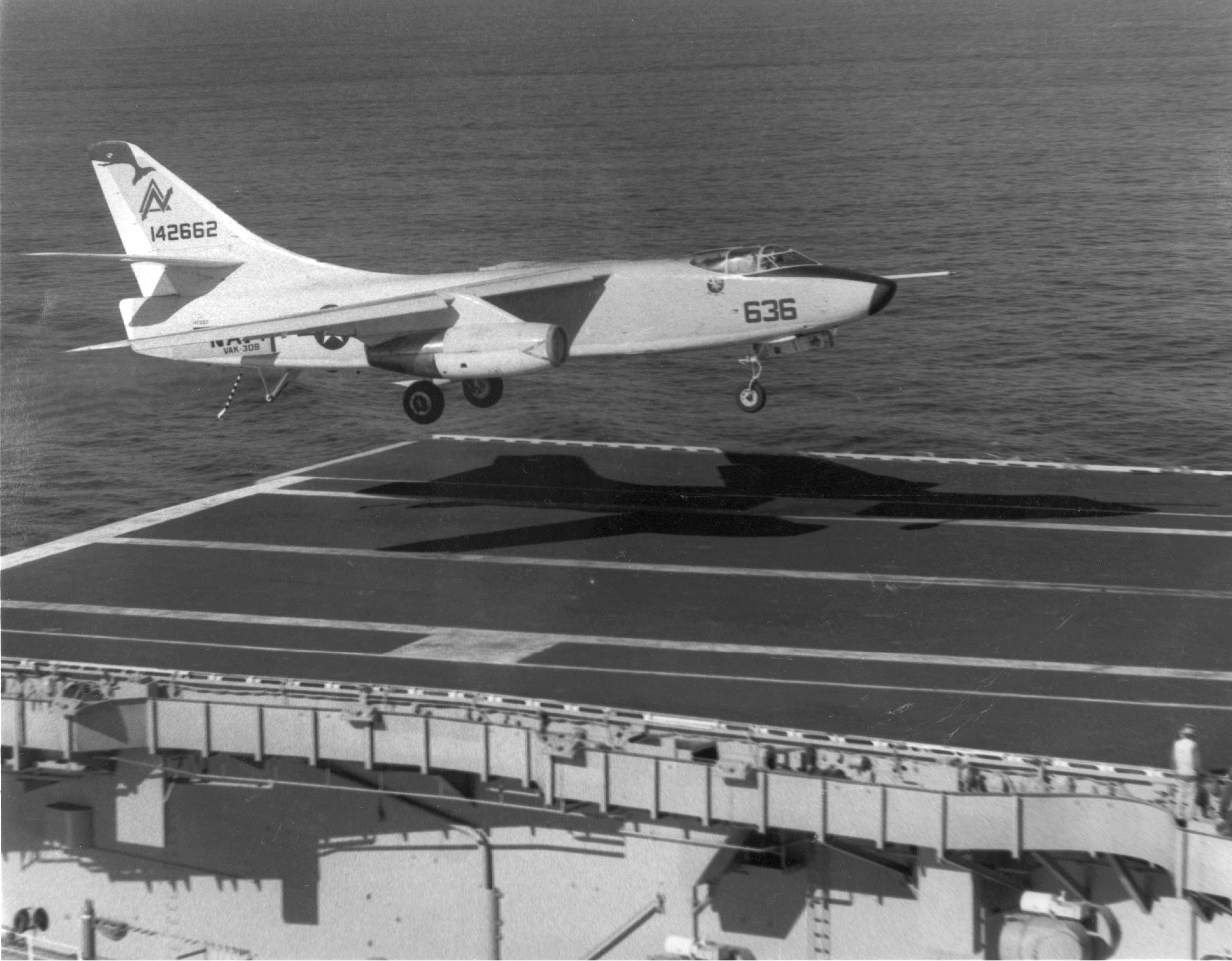 A U.S. Naval Air Reserve Douglas KA-3B Skywarrior (BuNo 142662) of aerial refueling squadron VAK-308, Reserve Carrier Air Wing 30 (CVWR-30), landing on the aircraft carrier USS Ranger (CV-61) in 1986. Note the whale painted on the tail fin, as the nickname of the A-3 was "whale".